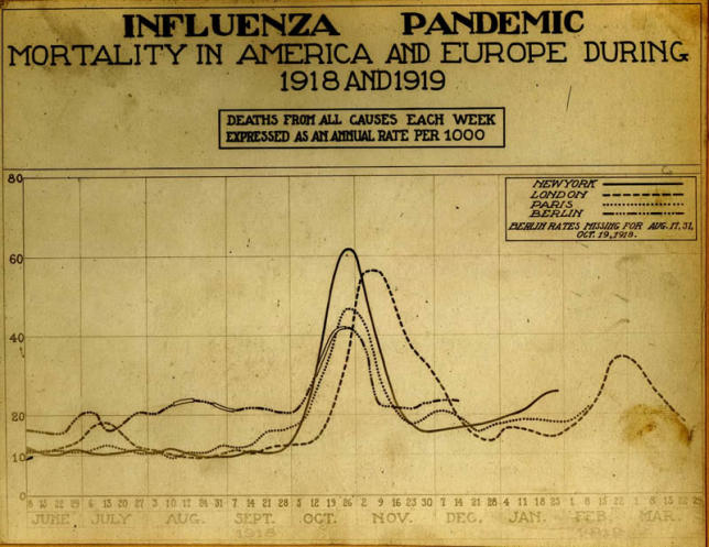 Historic Chart Showing Mortality Rates in America and Europe during 1918 and 1919 (Photo: Image “Reeve 3143,” National Museum of Health and Medicine, Armed Forces Institute of Pathology, Washington, D.C.)